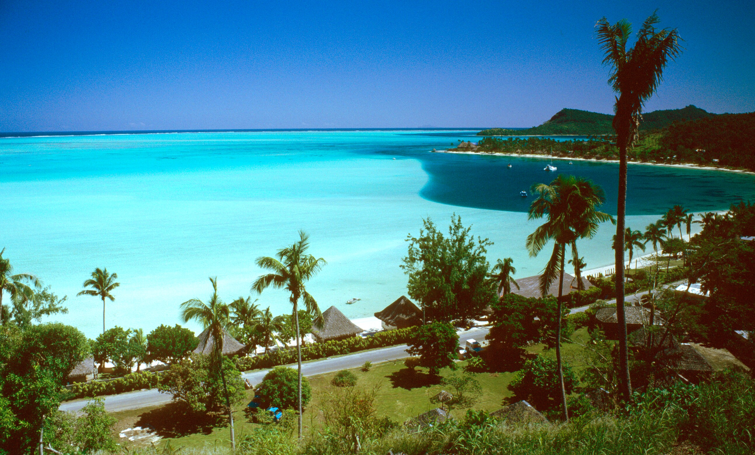 Matira beach and lagoon, Bora Bora, looking west towards Hotel Bora Bora (distant right) from the hill behind the Matira Hotel. Other images by this contributor - User:Sba2 Use this image as needed, but for uses other than personal, please credit as "Photo by Scott Williams".